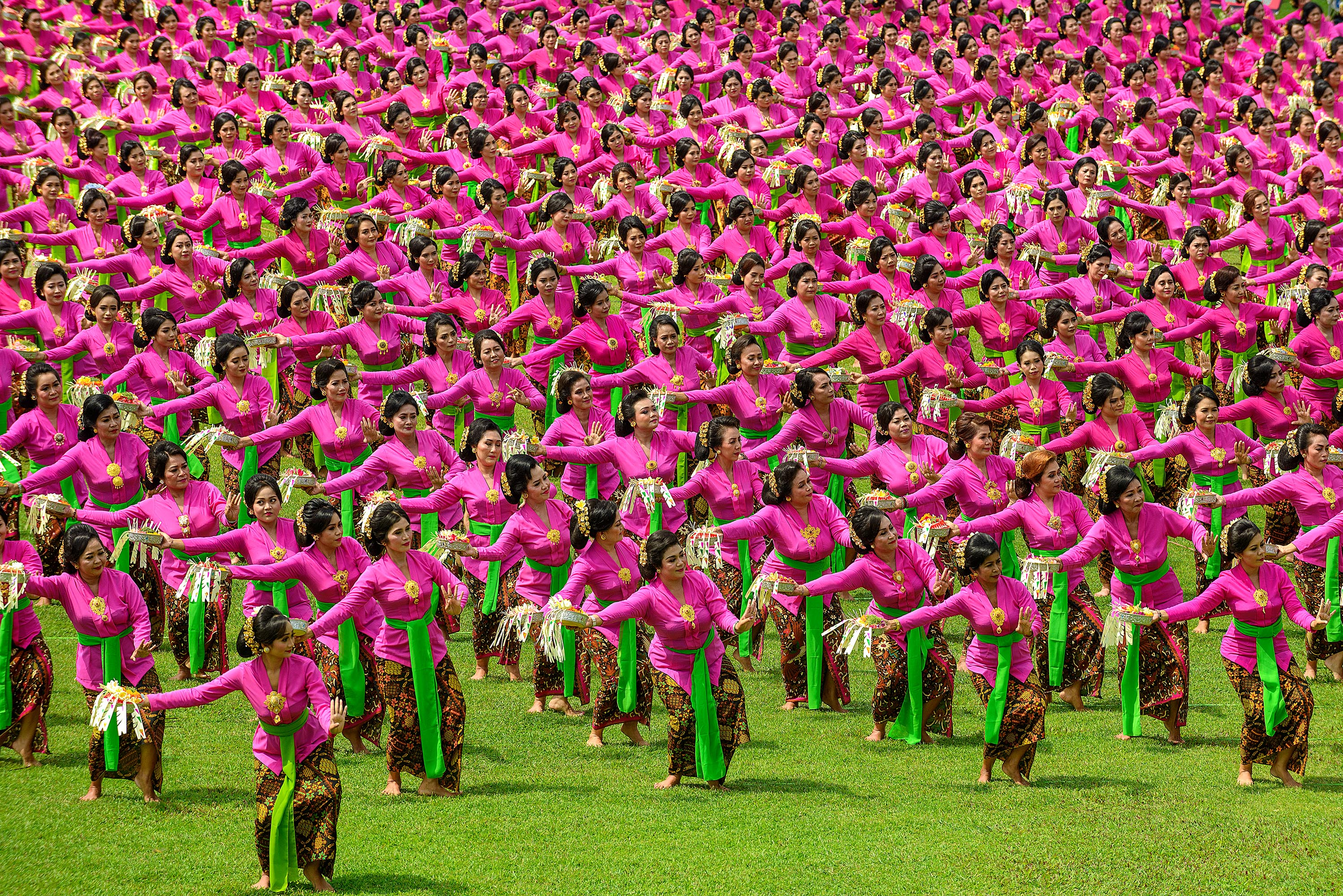 Pendet is a traditional dance from Bali, Indonesia, in which floral offerings are made to purify the temple or theater as a prelude to ceremonies or other dances.